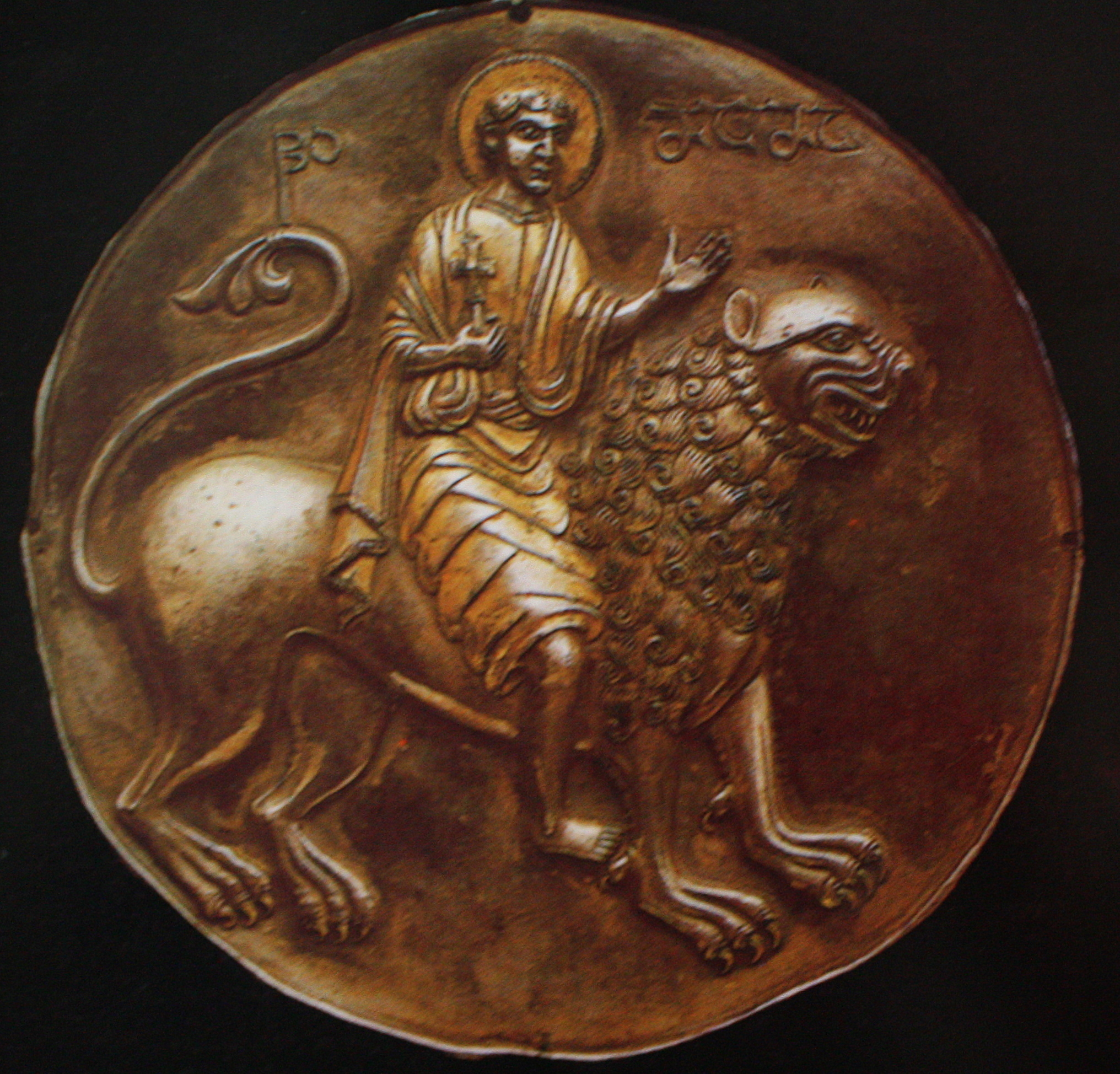 Tondo with the figure of Saint Mamas from Gelati Monastery, XIV-XVth c.c. The State Museum of Fine Arts of Georgia.